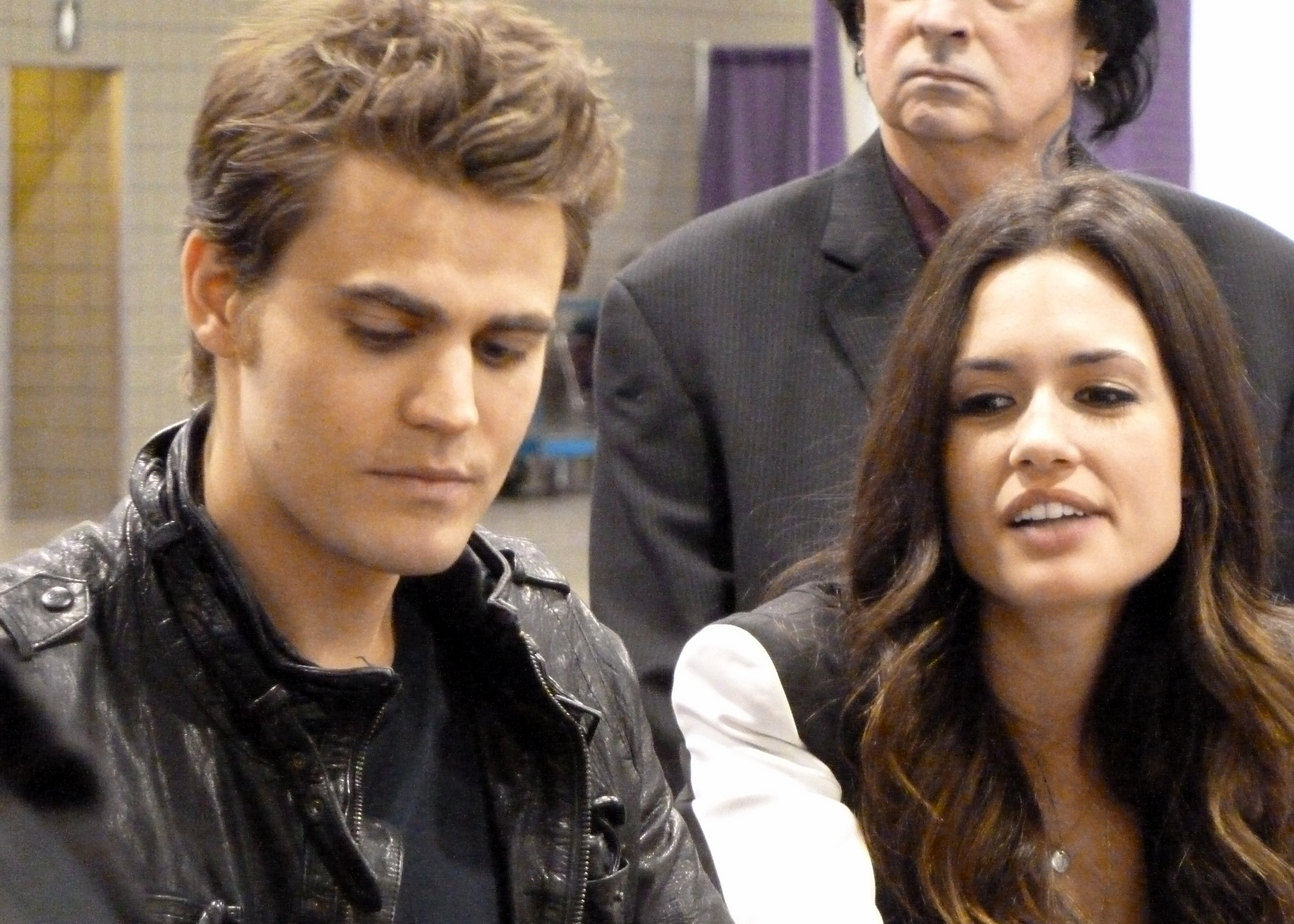 Paul Wesley & Torrey DeVitto from The Vampire Diaries in 2012 Wizard World Toronto.